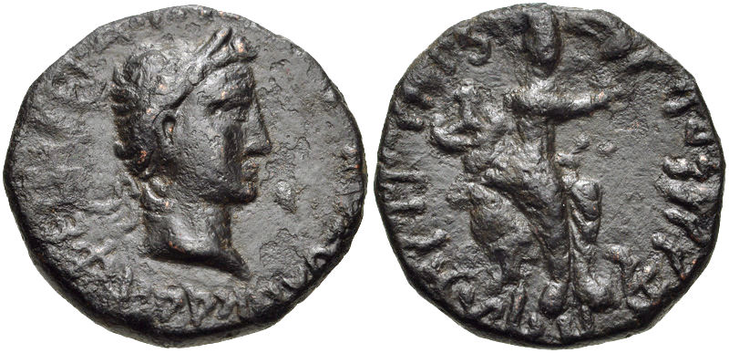 Kujula Kadphises. Circa AD 30-50-80 Laureate Julio-Claudian style head right Rev Kujula Kadphises seated right, raising hand; tripartite symbol to left